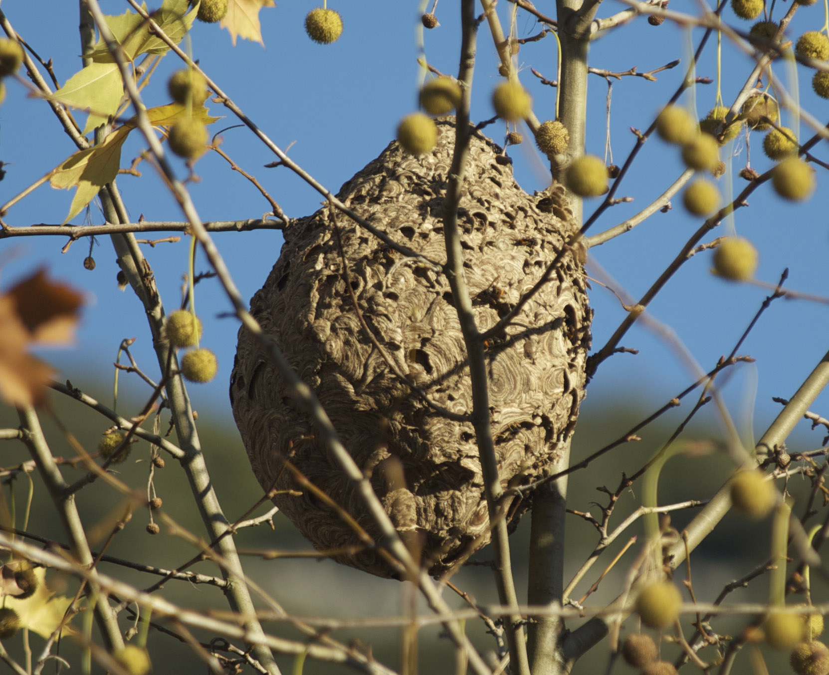 Vespa velutina nest on the top of a tree, Saint-Laurent-Le-Minier (Gard, France)